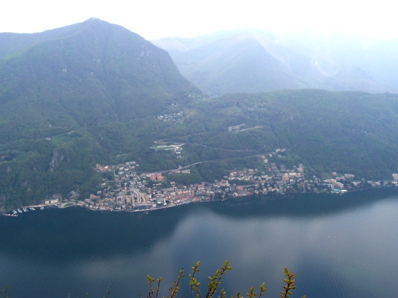 The mountain of Sighignola (upper left) and the Italian exclave of Campione d'Italia (waterfront centre) seen from the summit of Monte San Salvatore. For more information, see the Wikipedia articles Sighignola, Campione d'Italia and Monte San Salvatore.